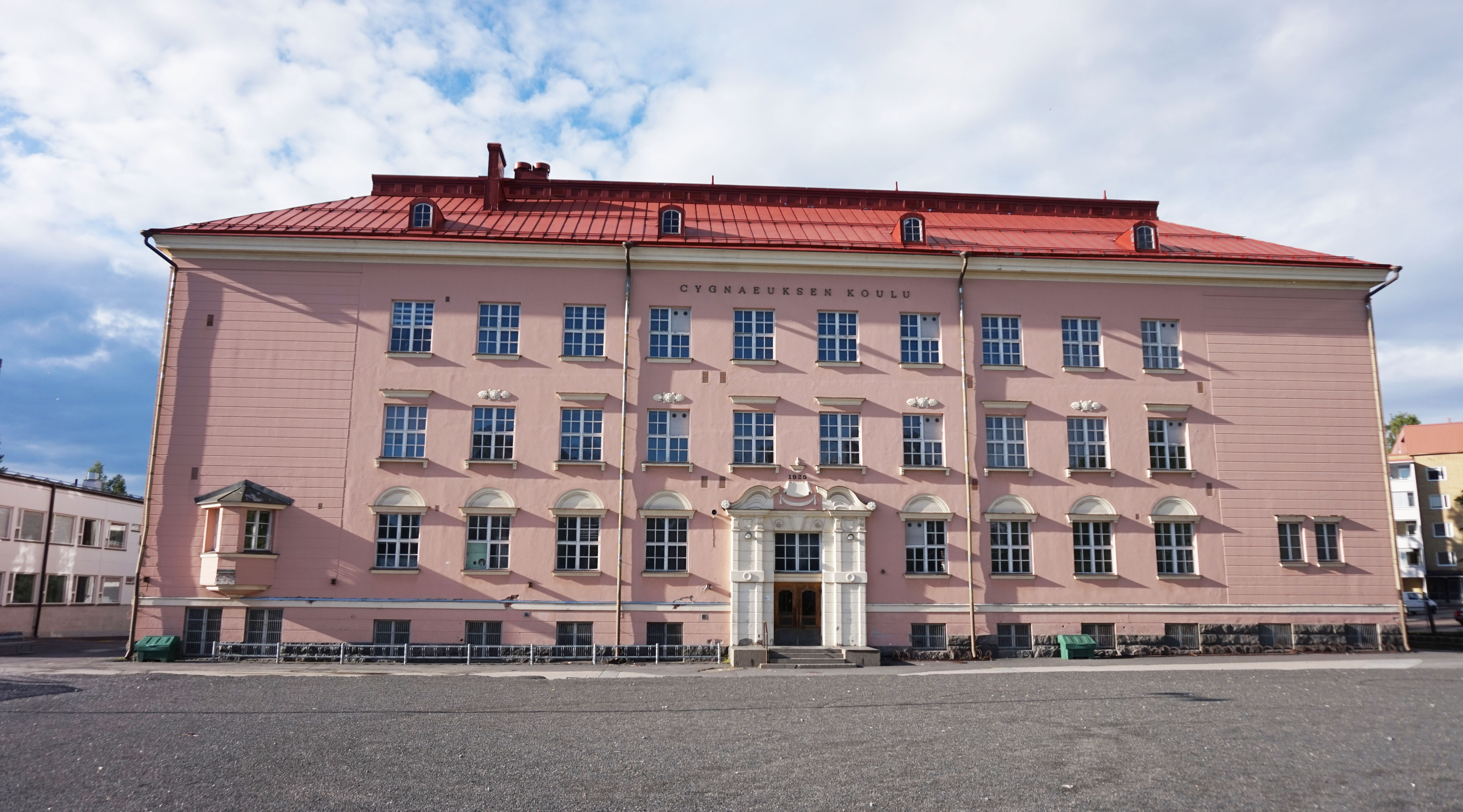 Cygnaeus school, Jyväskylä.